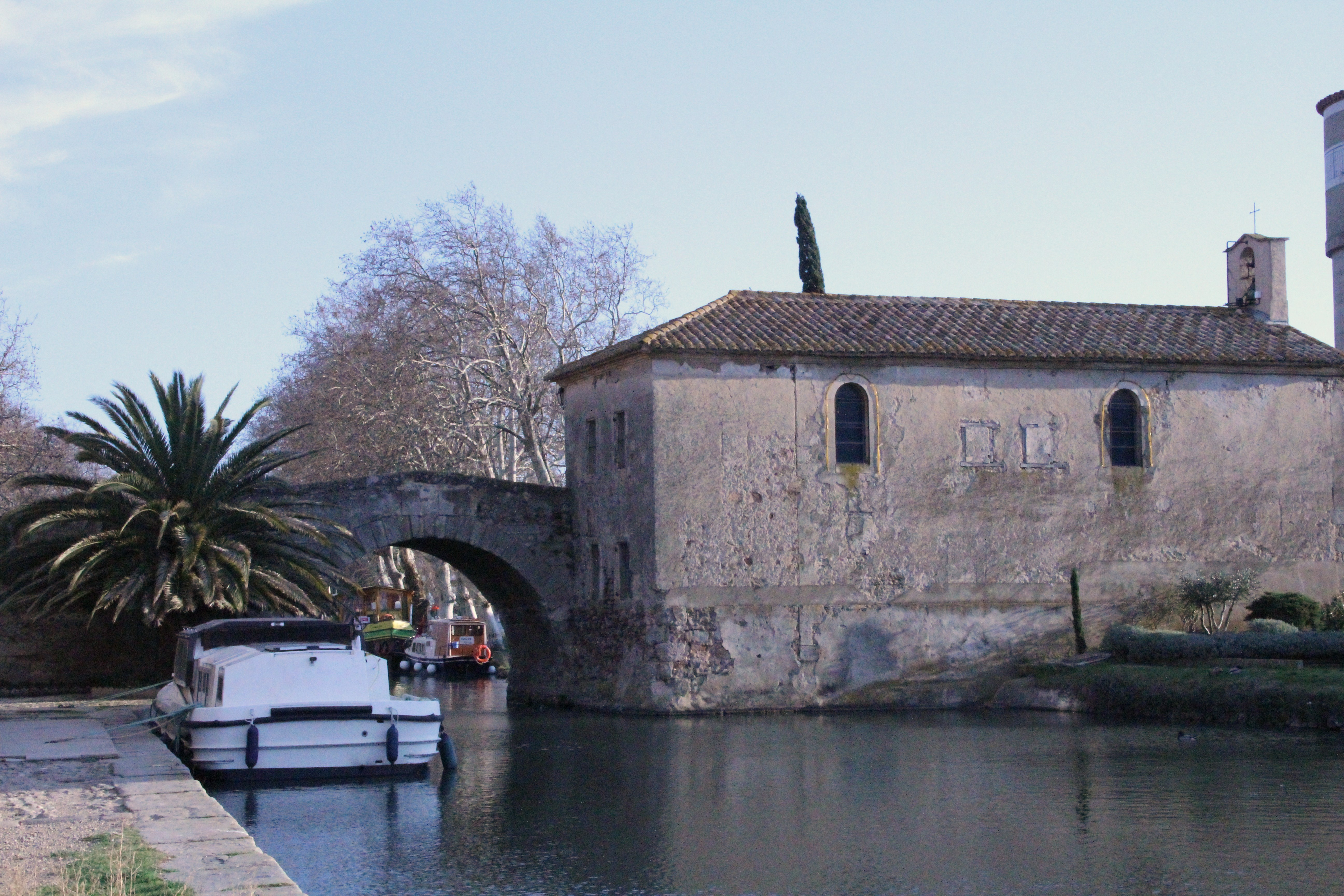 It is indexed in the Base Mérimée, a database of architectural heritage maintained by the French Ministry of Culture, under the references PA11000015 and PA11000016 .